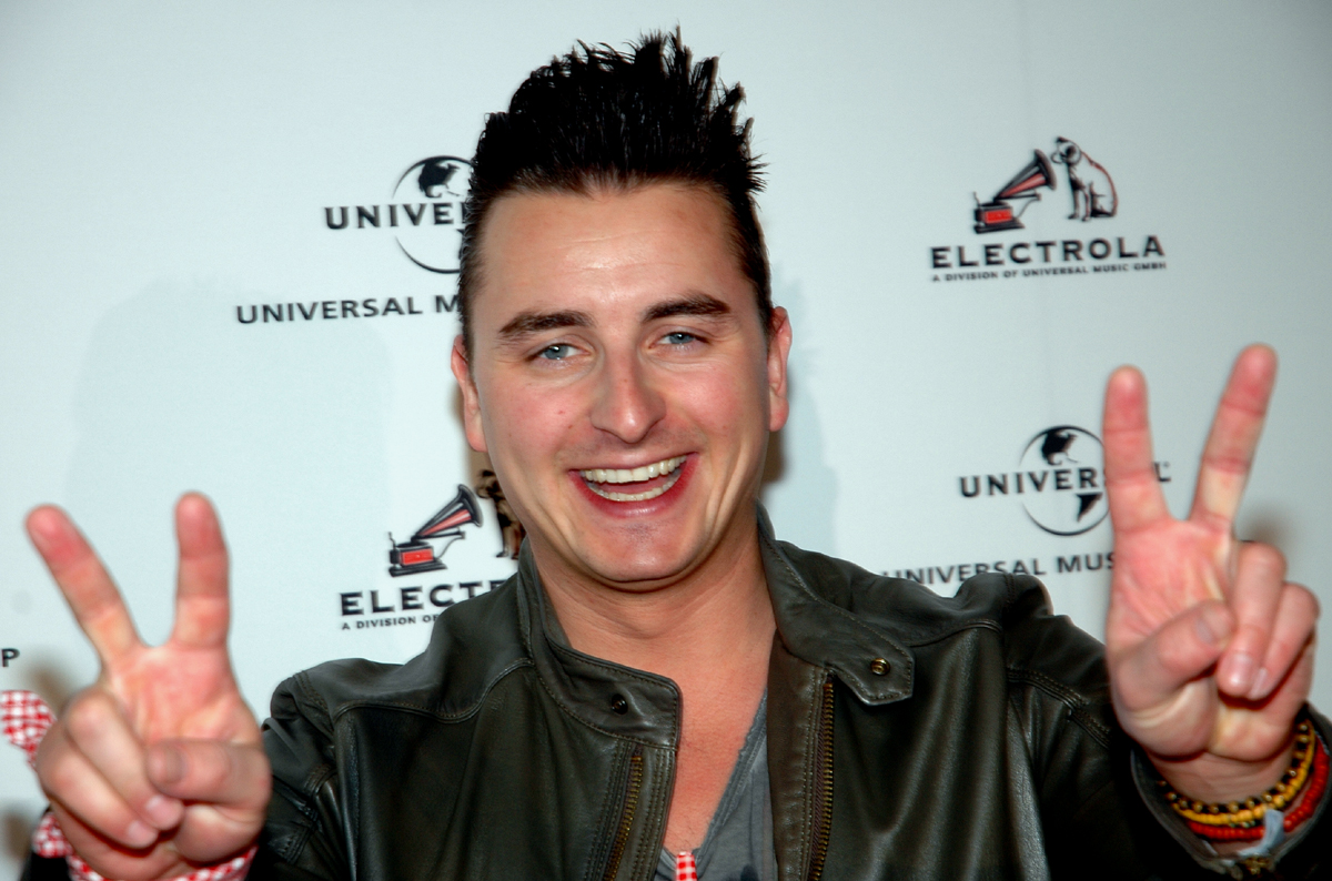 Andreas Gabalier at "Neue Welle"-Party, Electrola-Universal-Music in Munich 2014